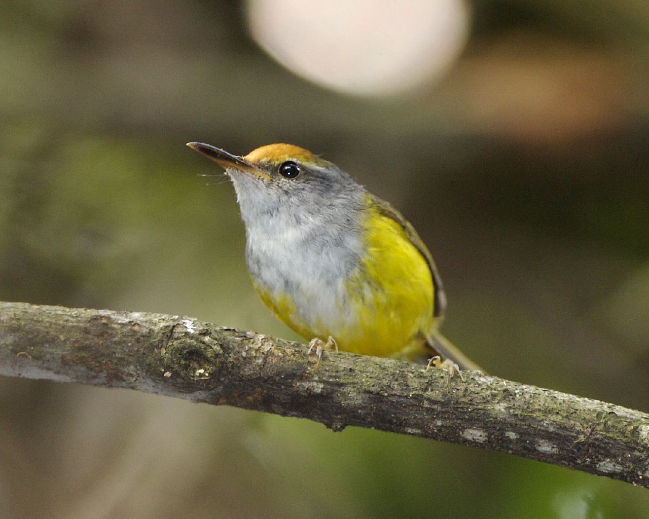 Mountain Tailorbird Phyllergates cuculatus (syn. Orthotomus cuculatus, Phyllergates cucullatus), Gunong Gede, Java, Indonesia